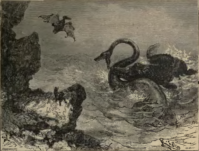 Illustration by Édouard Riou on page 11 of the book "Voyage au centre de la Terre" by Jules Verne